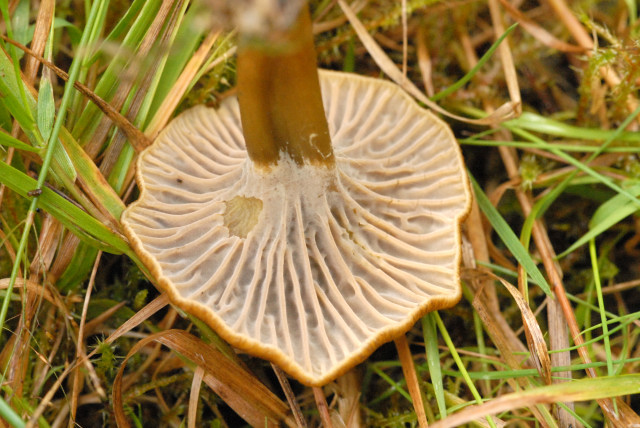 Cantharellus tubaeformis from Commanster, Belgium. The determination of the species shown in this picture has been verified.